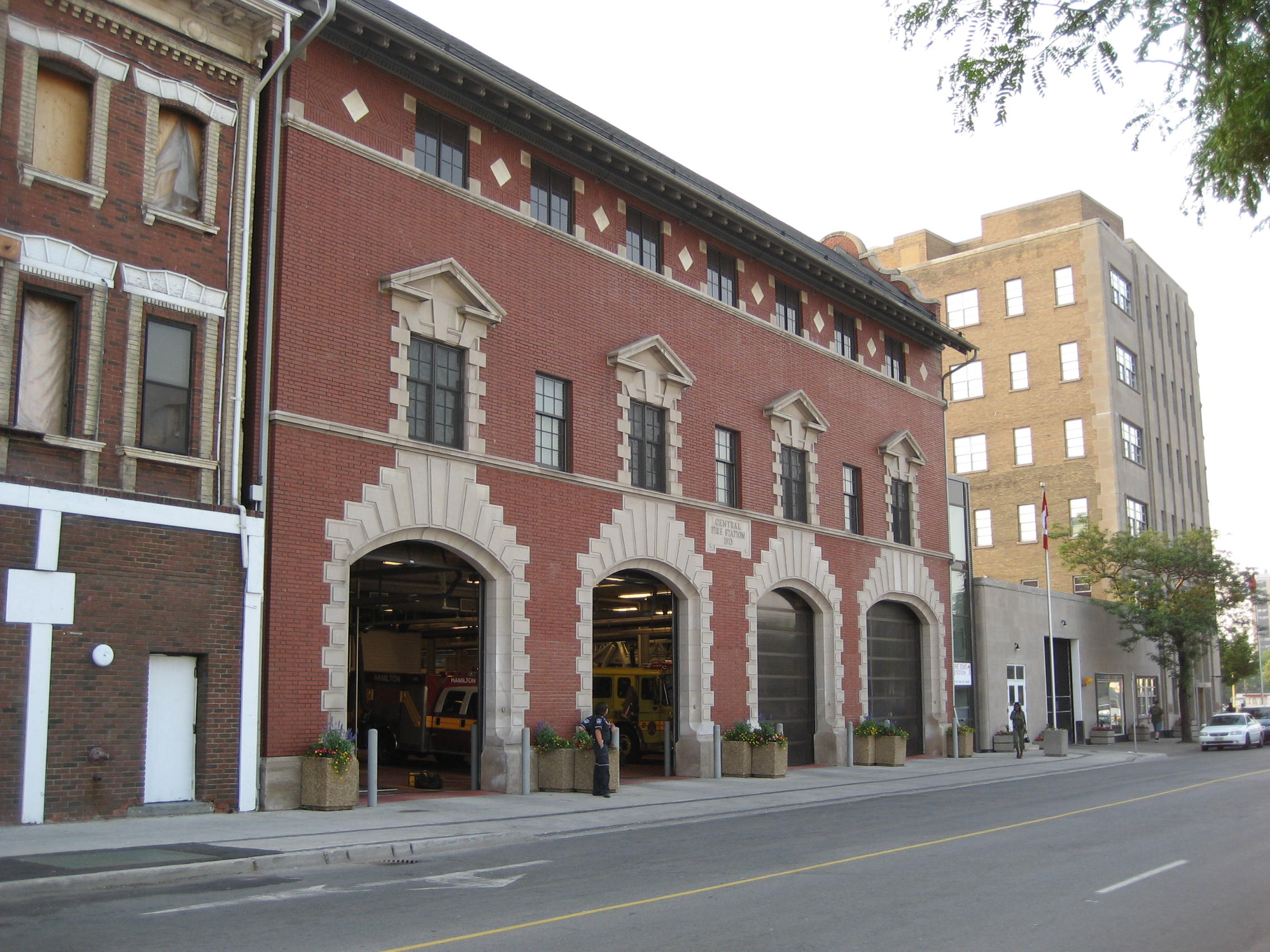 Central Fire Station, John Street North, Hamilton, Ontario